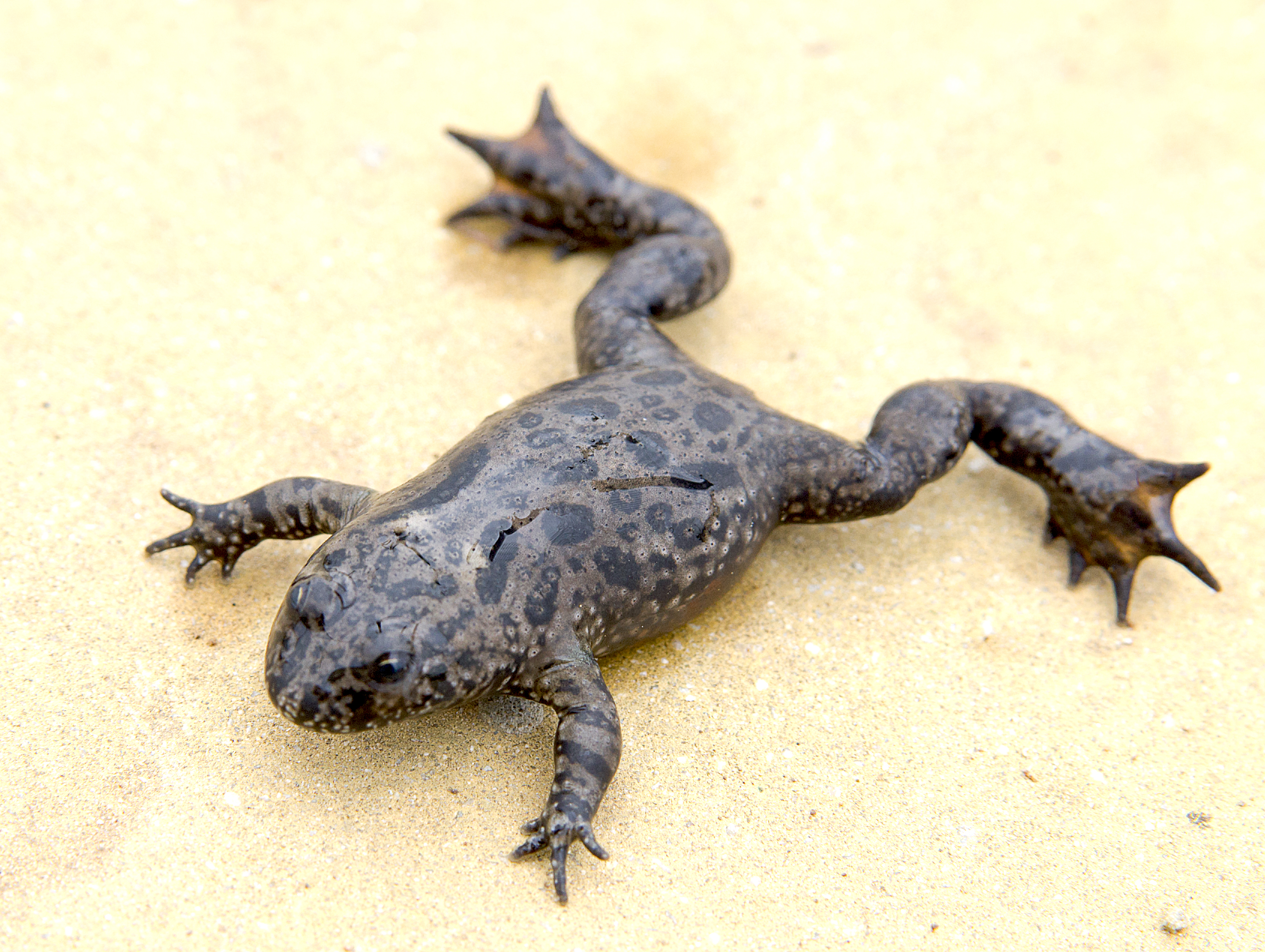 The distribution area is concentrated in Eastern and Central Europe; North-West, it ranges up to southern Sweden, Denmark, in the South to Bulgaria. "Fire-bellied" is derived from the brightly coloured red- or yellow-and-black patterns on the toads' ventral regions, which act as aposematic coloration, a warning to predators of the toads' reputedly foul taste. The other parts of the toads' skins are green or dark brown. If attacked by a vertebrate on land the European fire-bellied toad makes a hollow-back and lifts its four legs so that the ventral warning colour is displayed. The combination of dark and red is a learned signal meaning “attention poison” to the enemy.